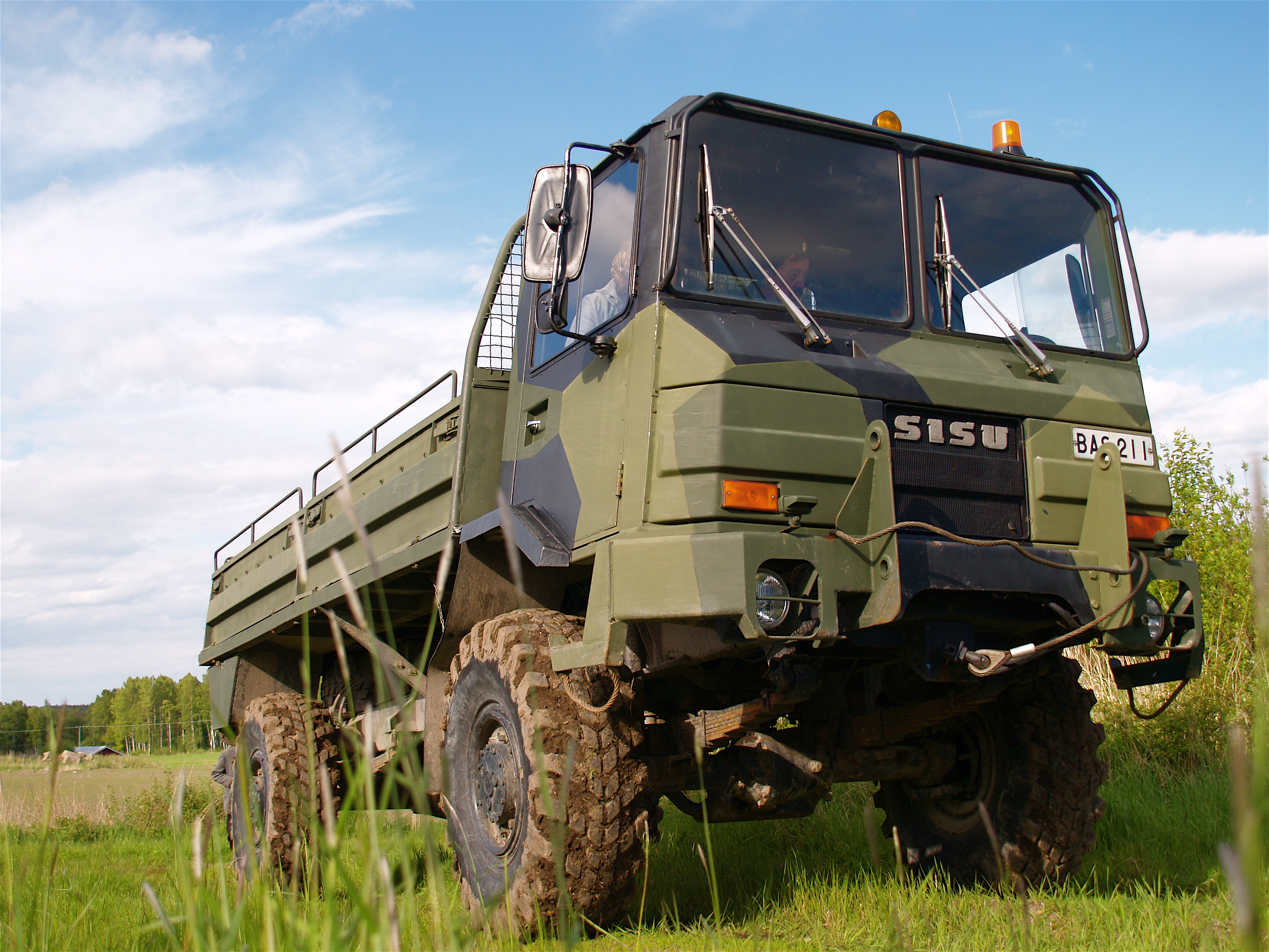 A Sisu SA-150 ("Masi") all-terrain transportation vehicle in Degerö. June 2006.